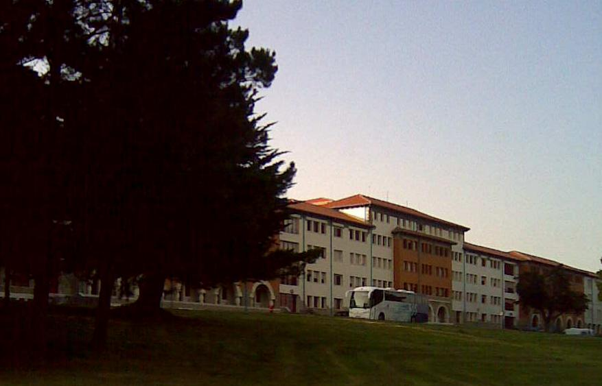 Santa Cruz Hospital (Liencres, Cantabria)